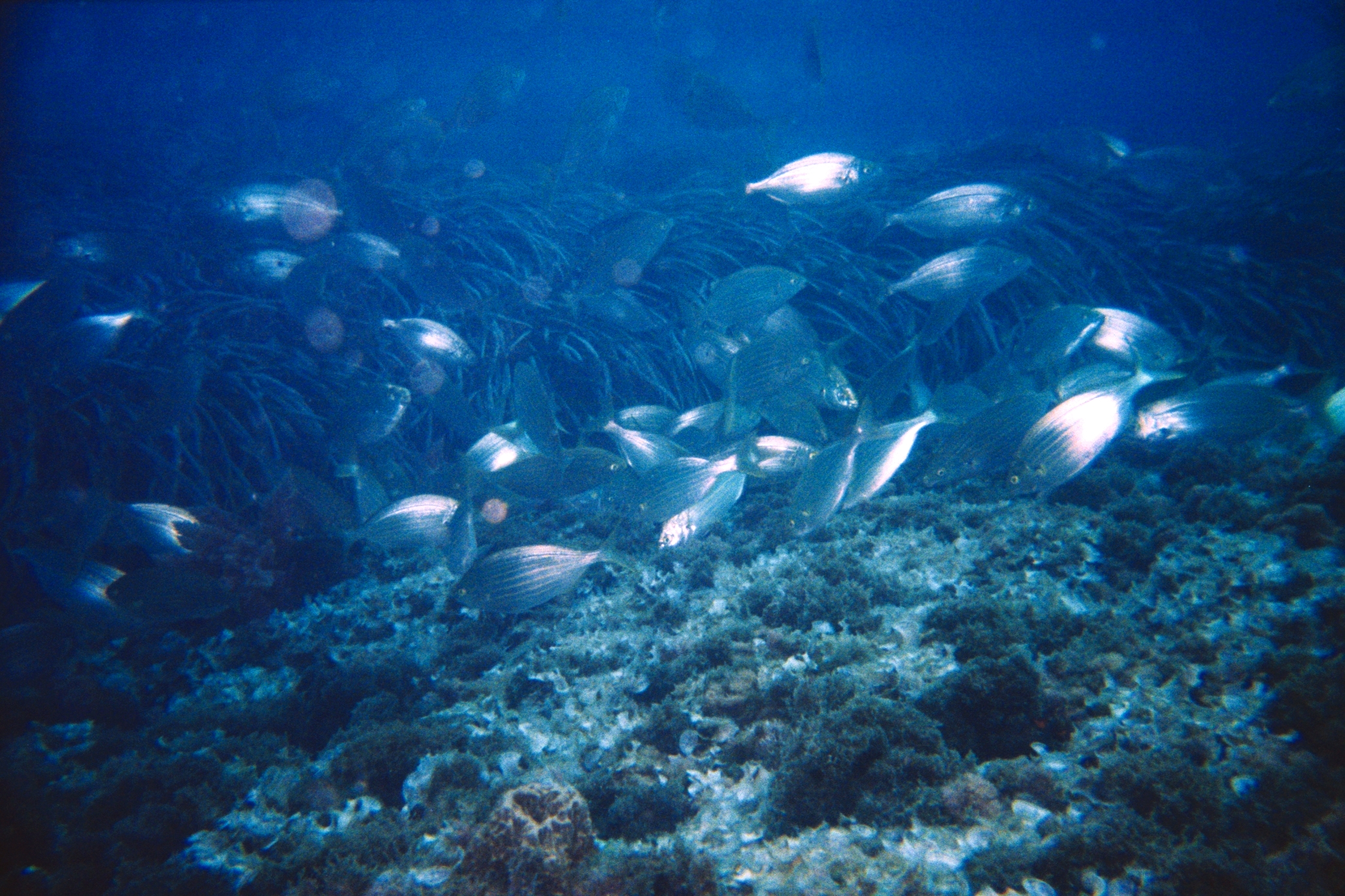 Calabardina Seabed in Águilas, Murcia (Spain)